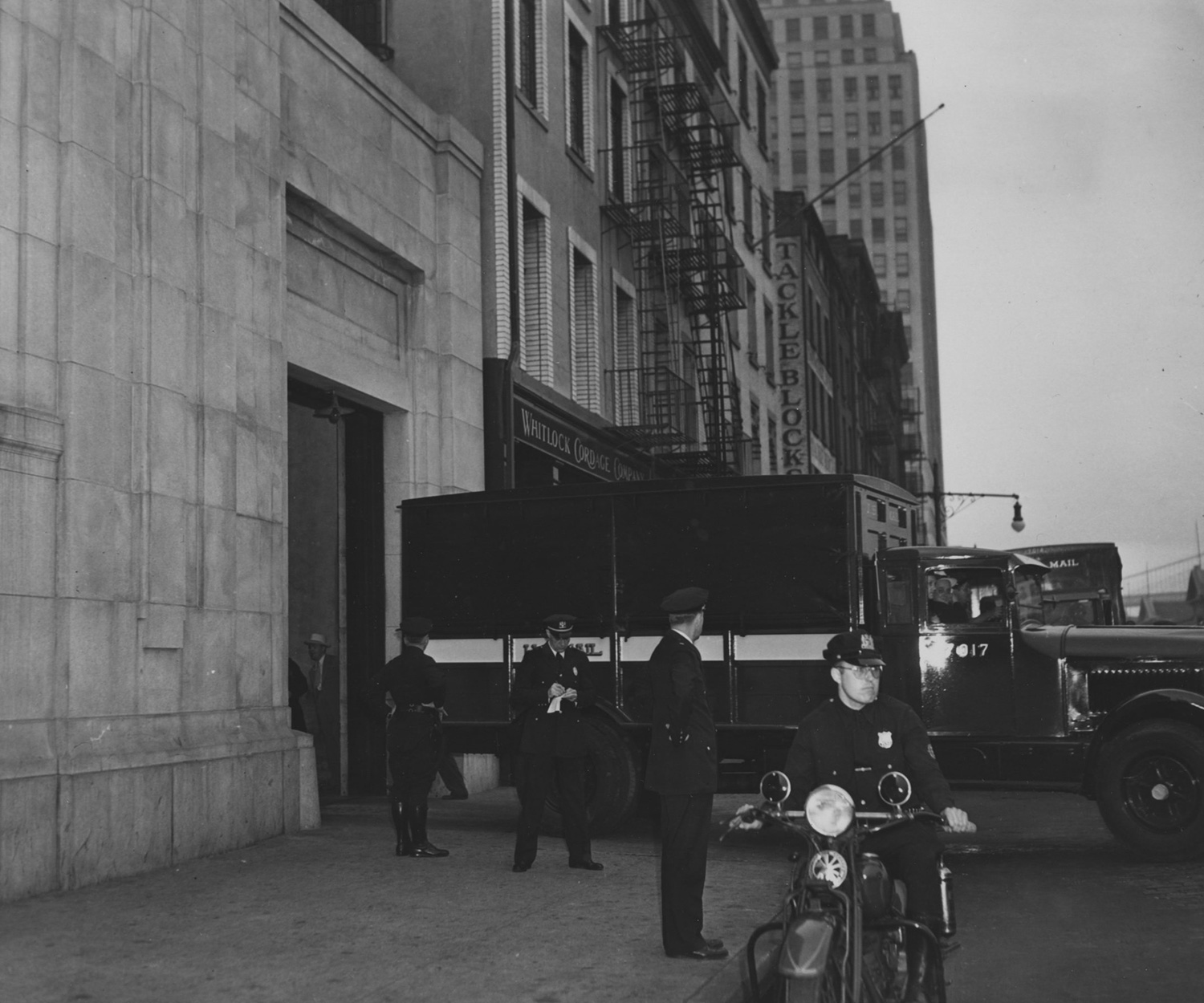 One of the mail trucks loaded with gold leaves the New York City Assay Office. The gold is to be sent to the United States Bullion Depository. 1941.